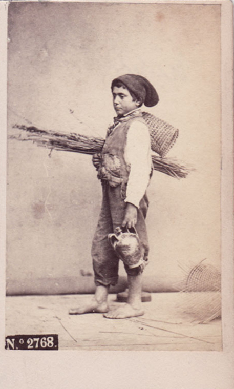 Giorgio Conrad (1827-1889) - Urchin in Naples. Catalogue # 2768.